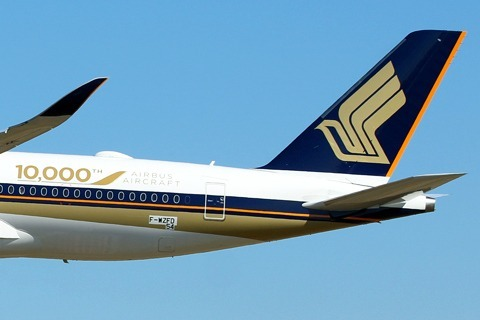 Singapore Airlines Airbus A350-941 F-WZFD to 9V-SMF. This aircraft was delivered to Singapore Airlines on 14 October 2016, and is the 10,000th aircraft to be delivered by Airbus.